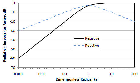 Monopole Radiation Impedance